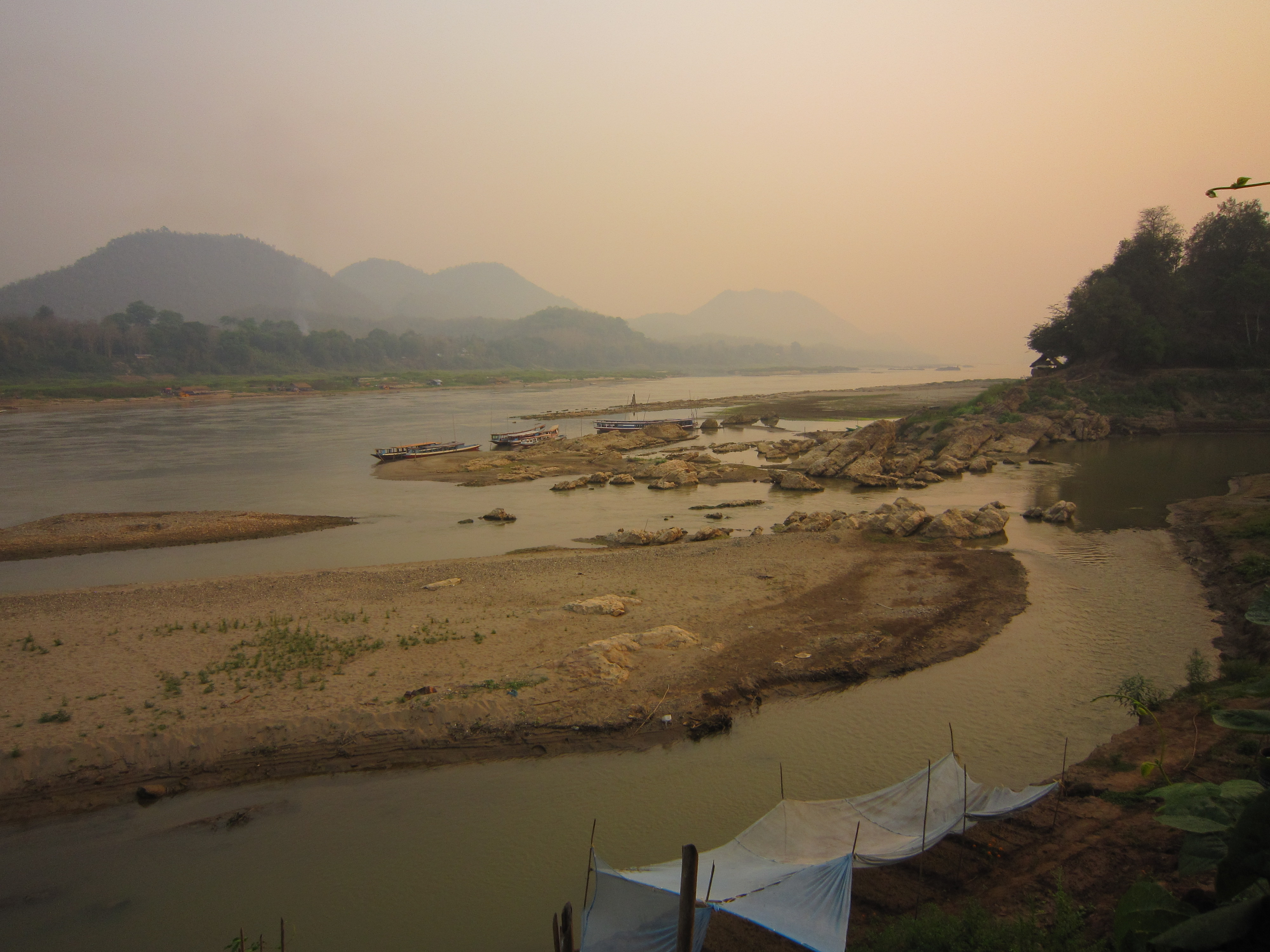 Mouth of Nam Khan